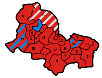 Ward map of the Wigan council with political colouring for the 1973 election. Striped wards denote mixed representation, with uneven thickness showing a 2:1 ratio.